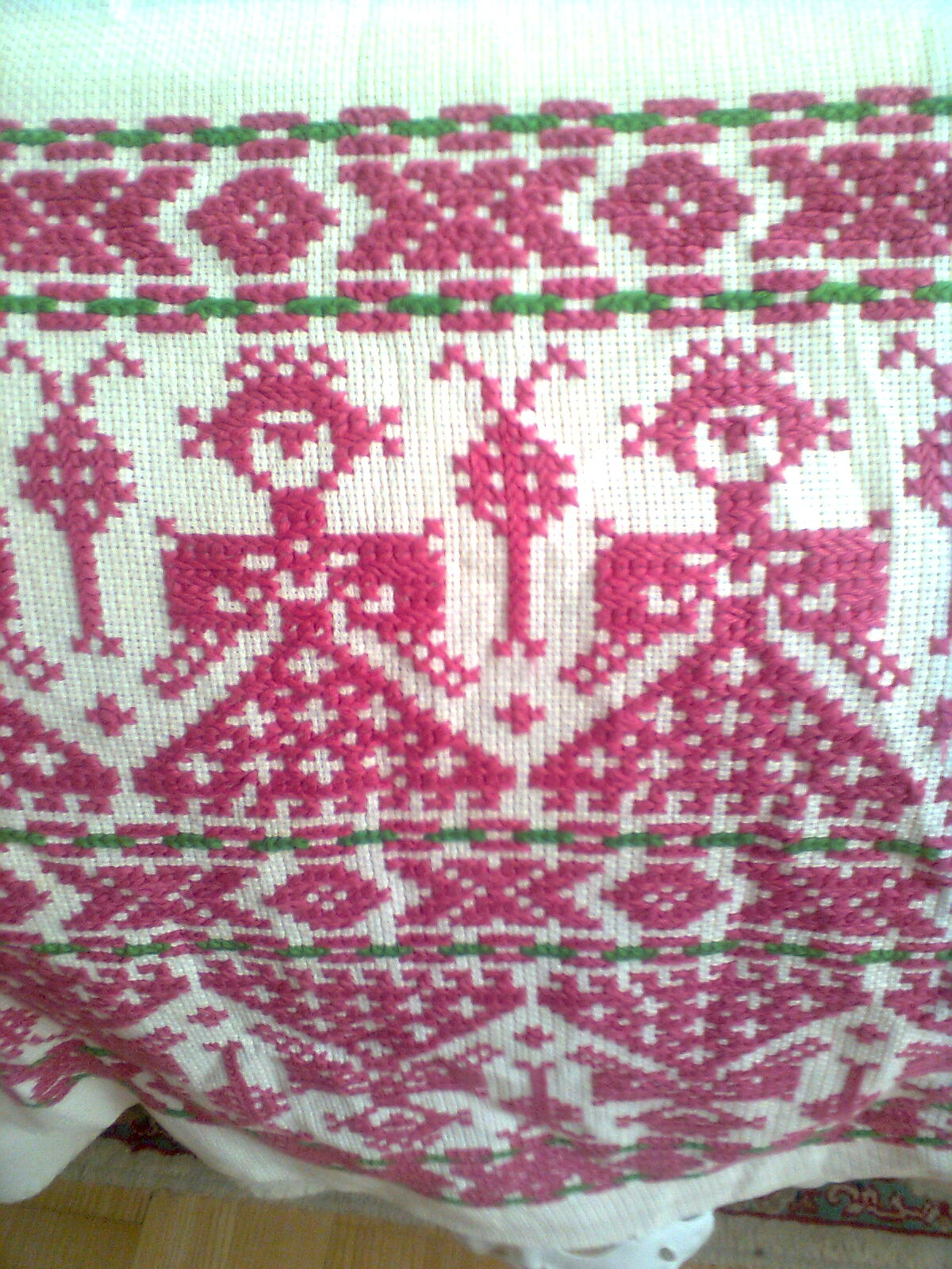 Cross stitch embroidery 18th century pattern sheet edges and smooth cross stitch, red. My work, wall hangings.